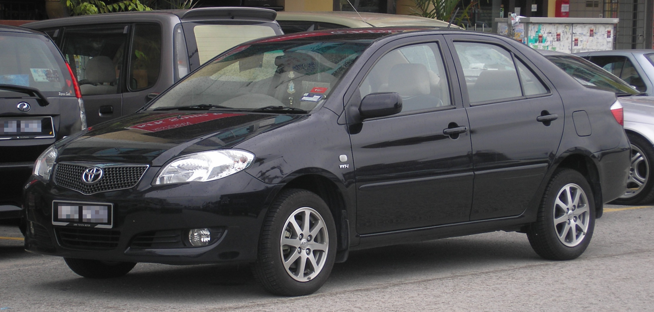 Front-side shot of an first generation, first facelifted Toyota Vios, in Serdang, Selangor, Malaysia.